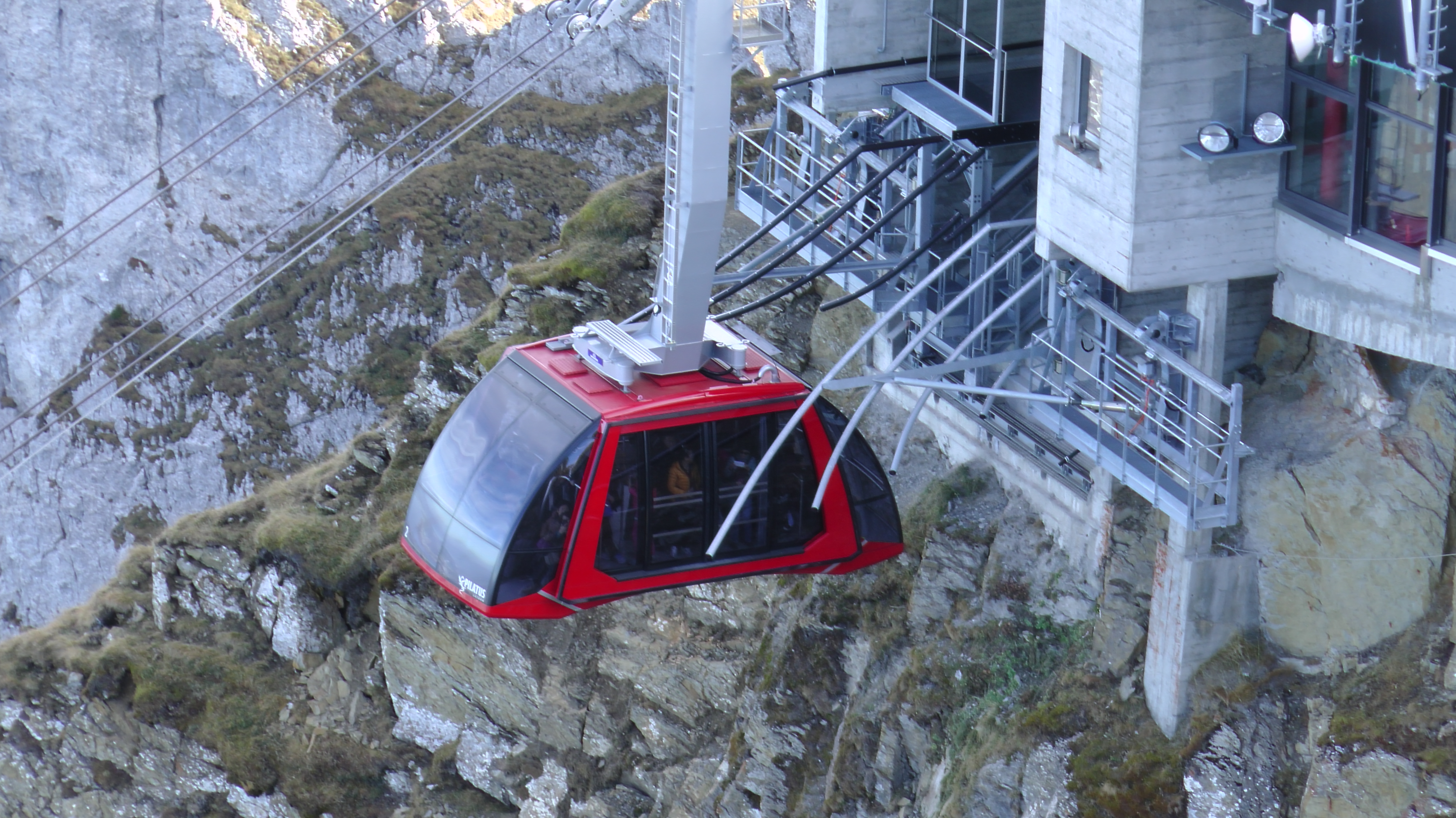 Pilatus cableway "Dragon Ride" since 2015, arriving Mount Pilatus.